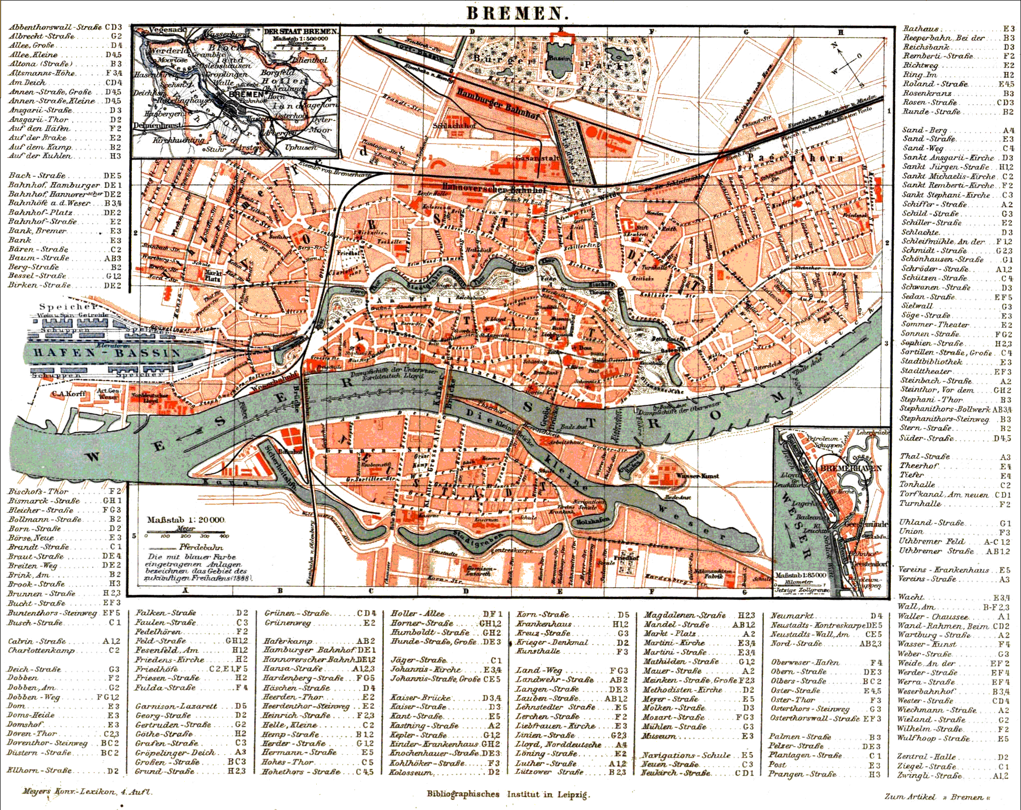 Map of Bremen, 1885 or a bit earlier